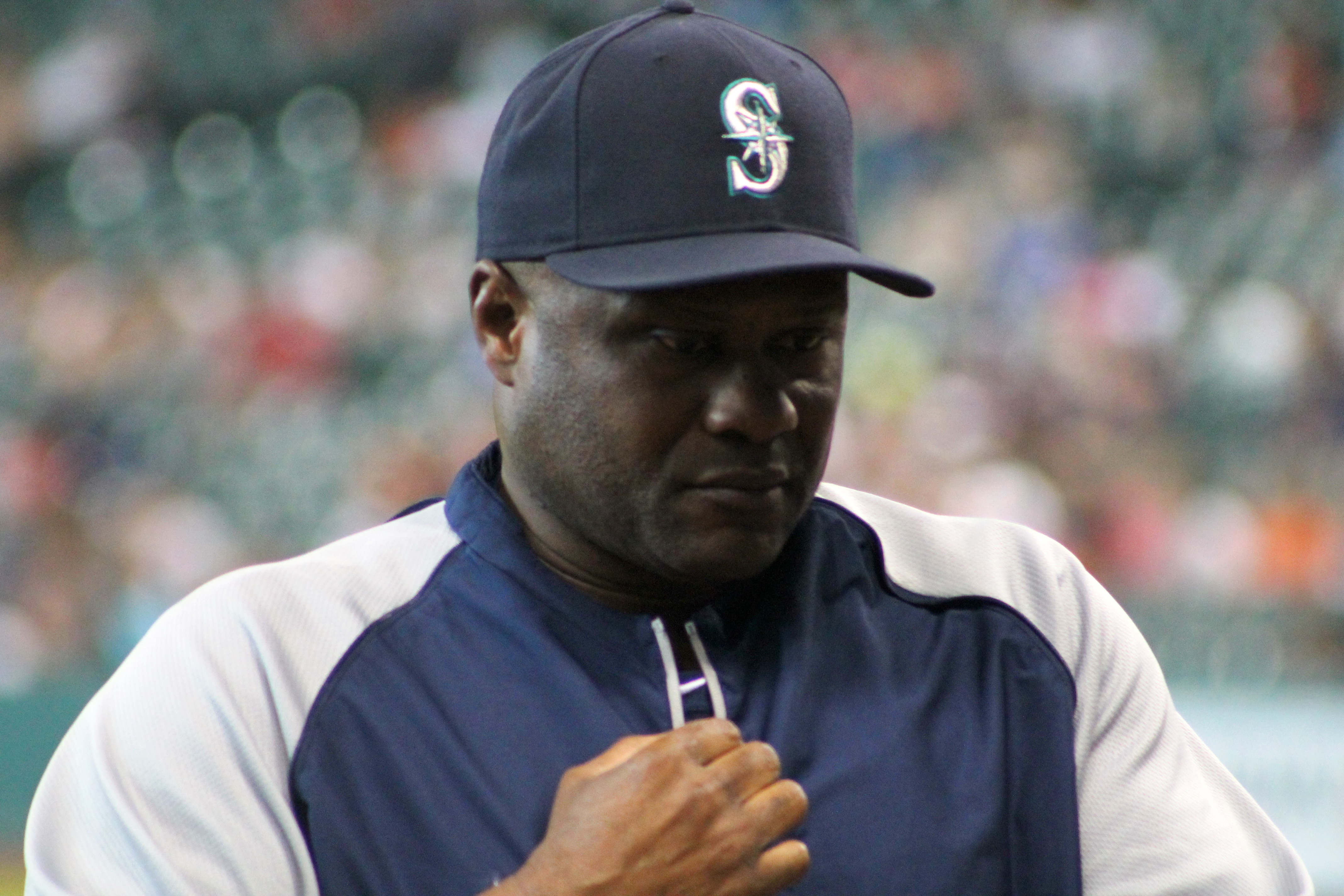 Major League Baseball manager Lloyd McClendon at Minute Maid Park in July 2014.